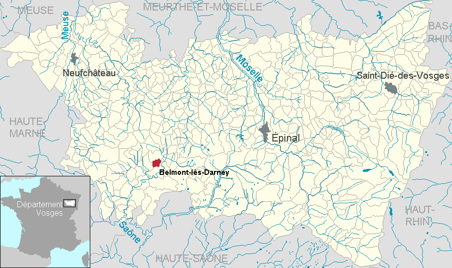 Belmont-lès-Darney in the department of Vosges, Lorraine, France